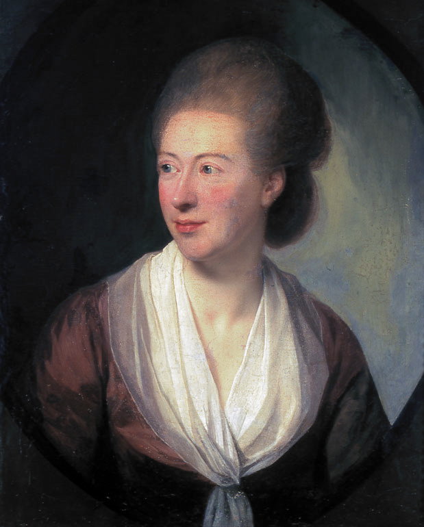 Isabella Agneta Elisabeth van Tuyll van Serooskerken, called Belle de Zuylen, future Isabelle de Charrière (1740-1805) oil on canvas 64 x 50 cm 1775 - 1799